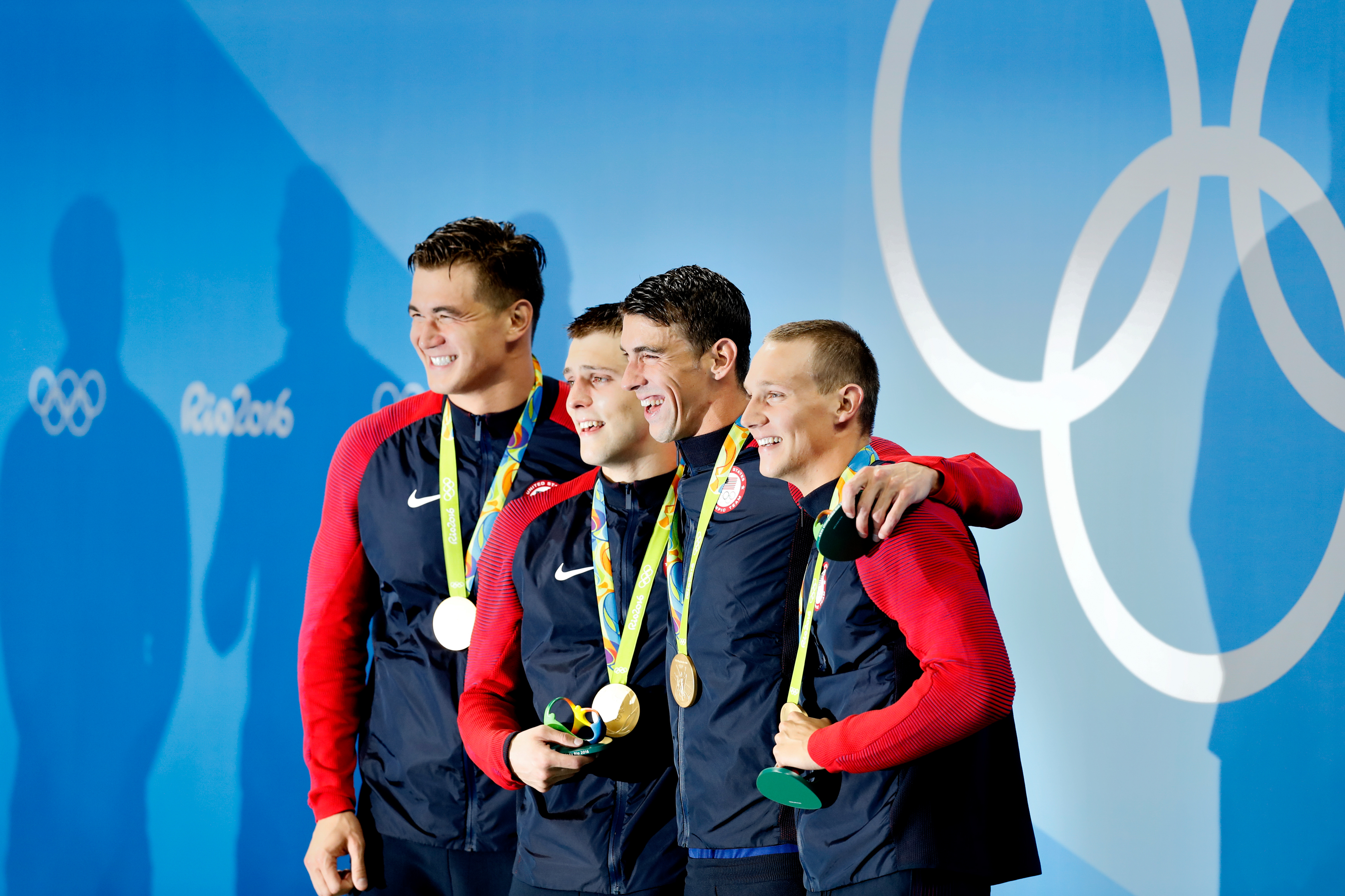 2016 Summer Olympics in Rio de Janeiro; the gold medalists in 4x100m freestyle are (fltr) Nathan Adrian, Ryan Held, Michael Phelps and Caeleb Dresser